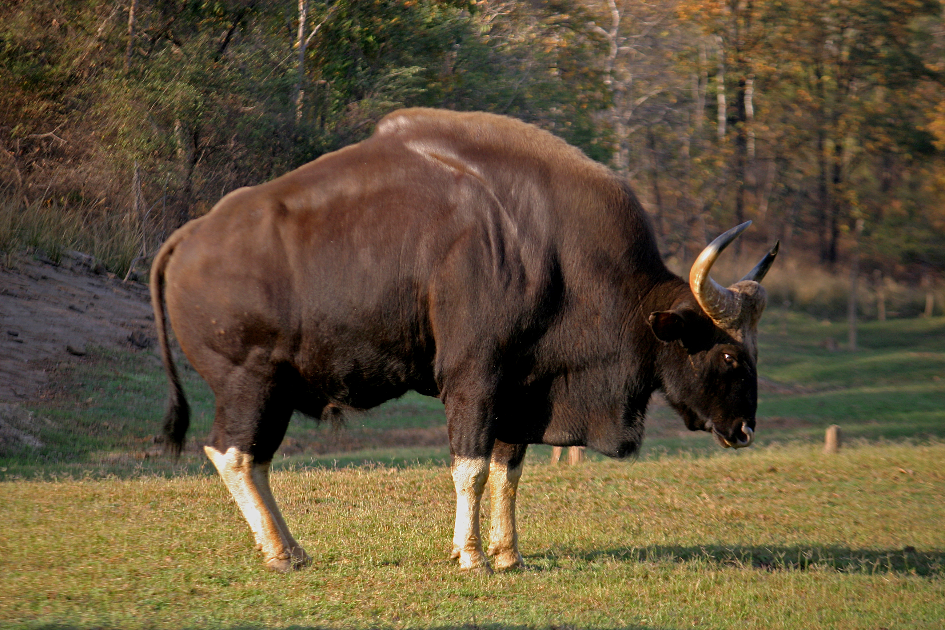 Gaur(Bos gaurus)